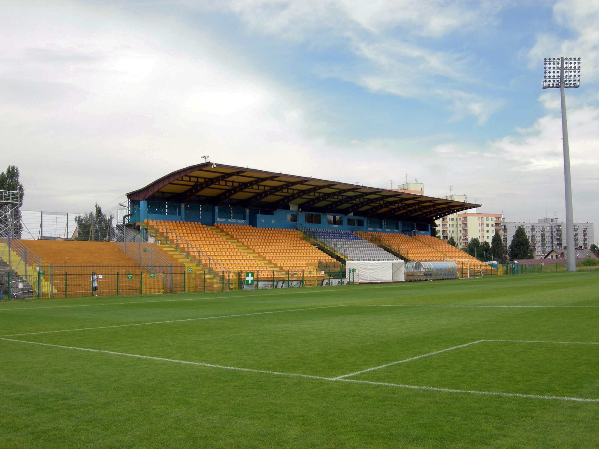 Stadion Miejski in Bielsko-Biała – covered stand.